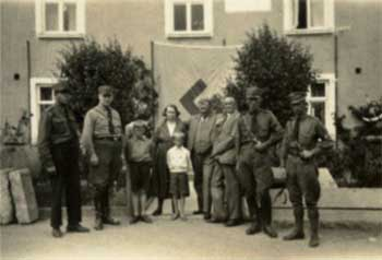 SNSP members in Sjöbo, 1933. Birger Furugård second to the left.